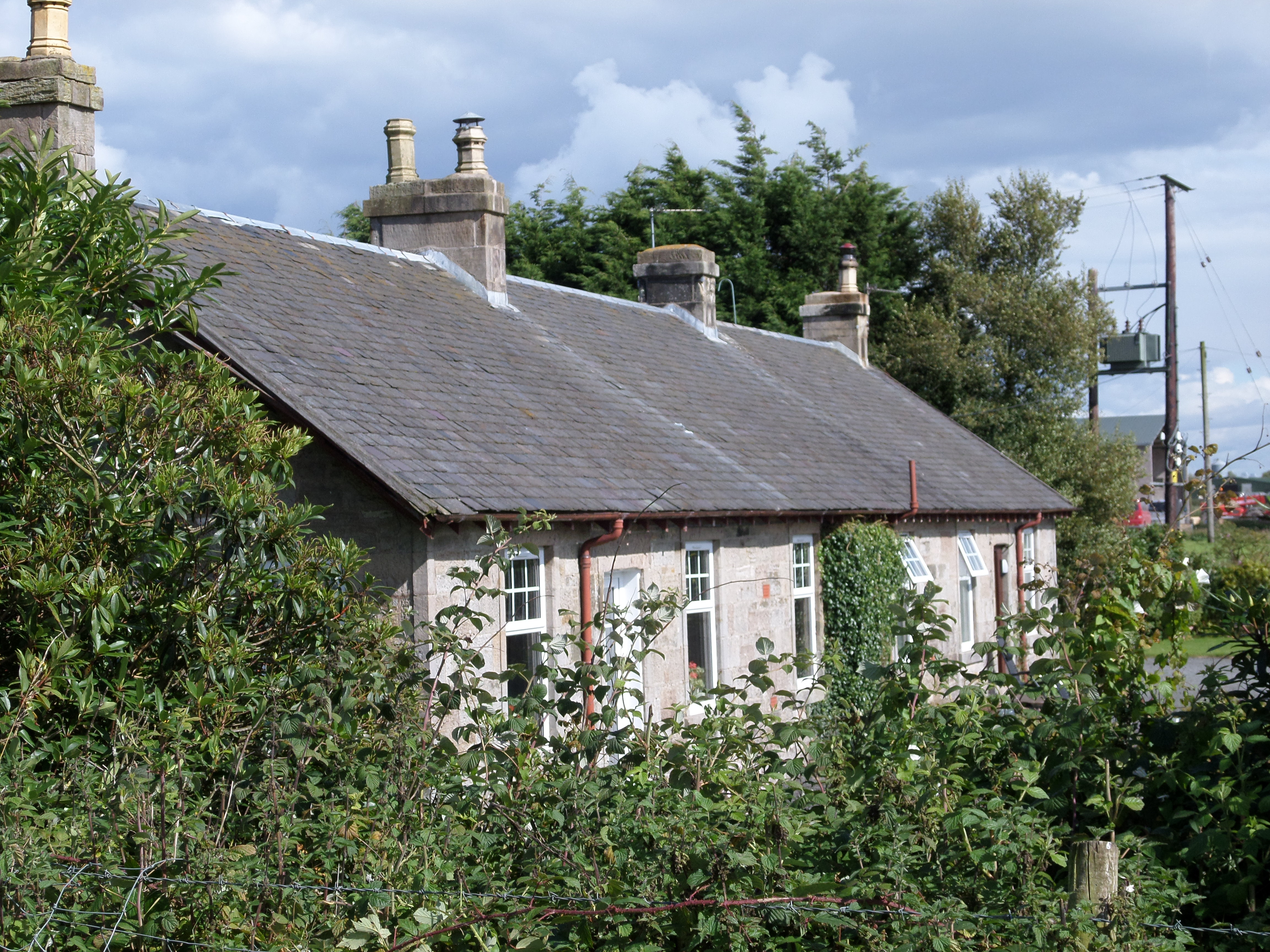 Lissens Goods station cottages, North Ayrshire, Scotland